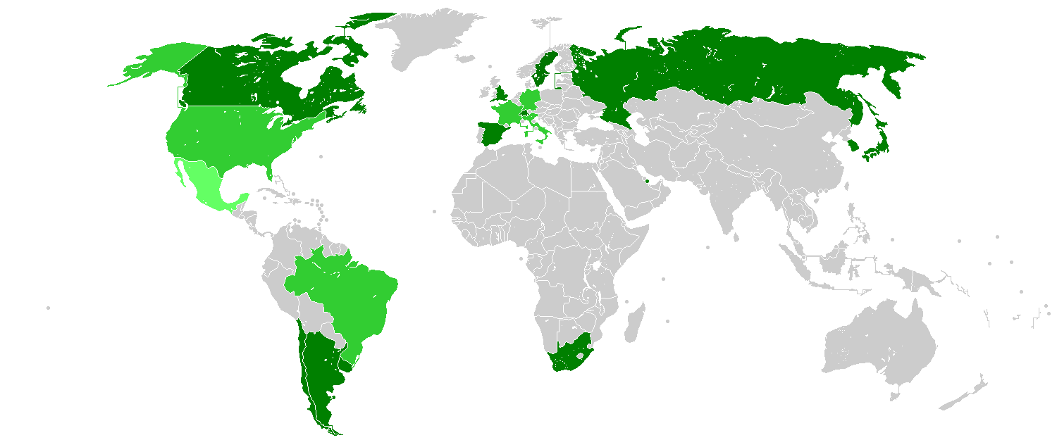 A map showing the locations of all FIFA World Cup hosts as of 2010. Note that Germany hosted first as West Germany. Also note that Republic Korea and Japan were co-hosts in 2002.